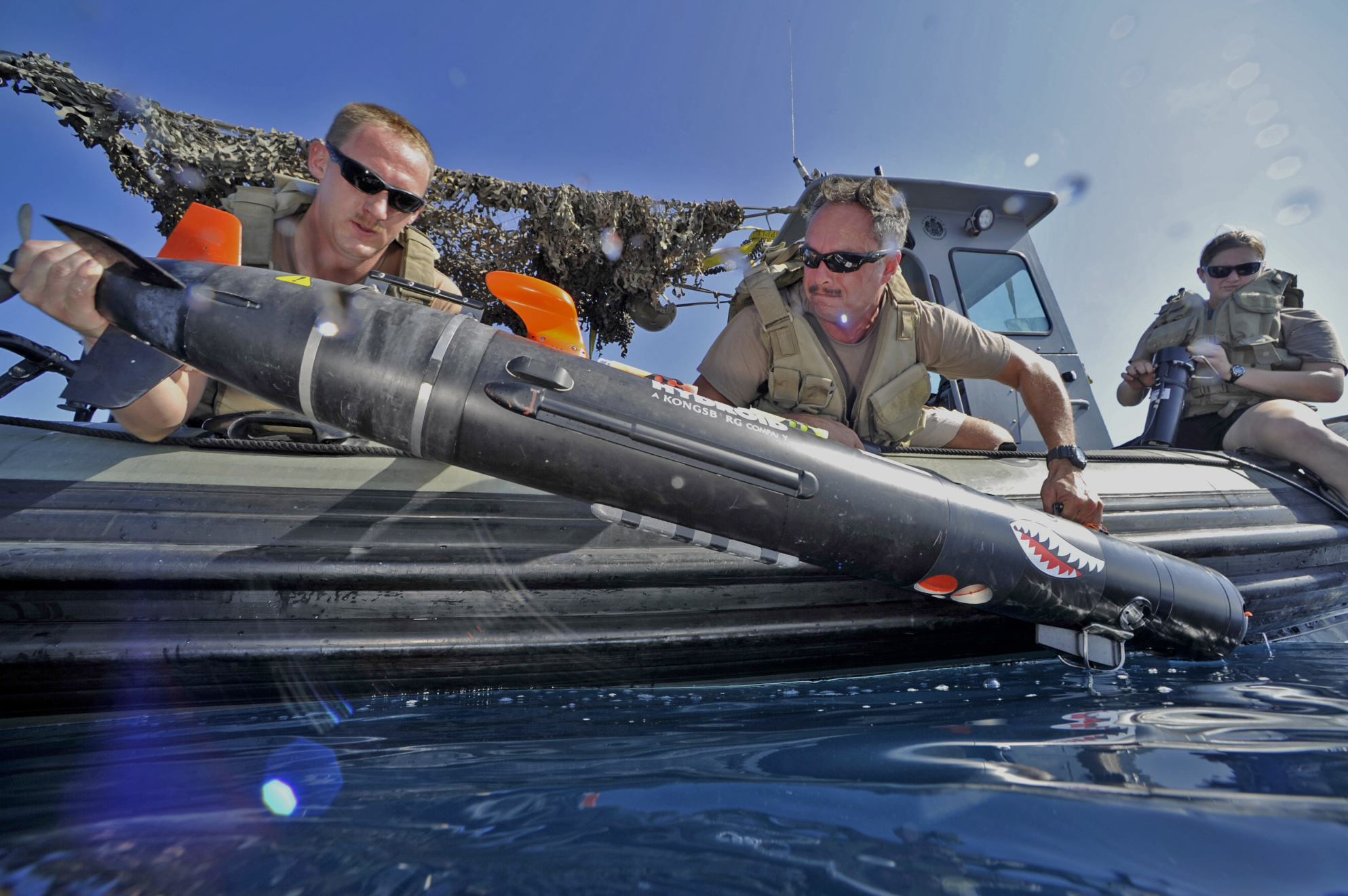 141104-N-WB378-003 GULF OF OMAN (Nov. 4, 2014) Aerographer’s Mate 2nd Class Robert Carlson, left, and Aerographer’s Mate 1st Class Melvin Lankford, assigned to Commander, Task Group 56.1, deploy a MK 18 MOD 2 Swordfish to survey the ocean floor during the International Mine Countermeasure Exercise (IMCMEX). With a quarter of the world's navies participating, including 6,500 Sailors from every region, IMCMEX is the largest international naval exercise promoting maritime security and the free-flow of trade through mine countermeasure operations, maritime security operations, and maritime infrastructure protection in the U.S. 5th Fleet area of responsibility and throughout the world.